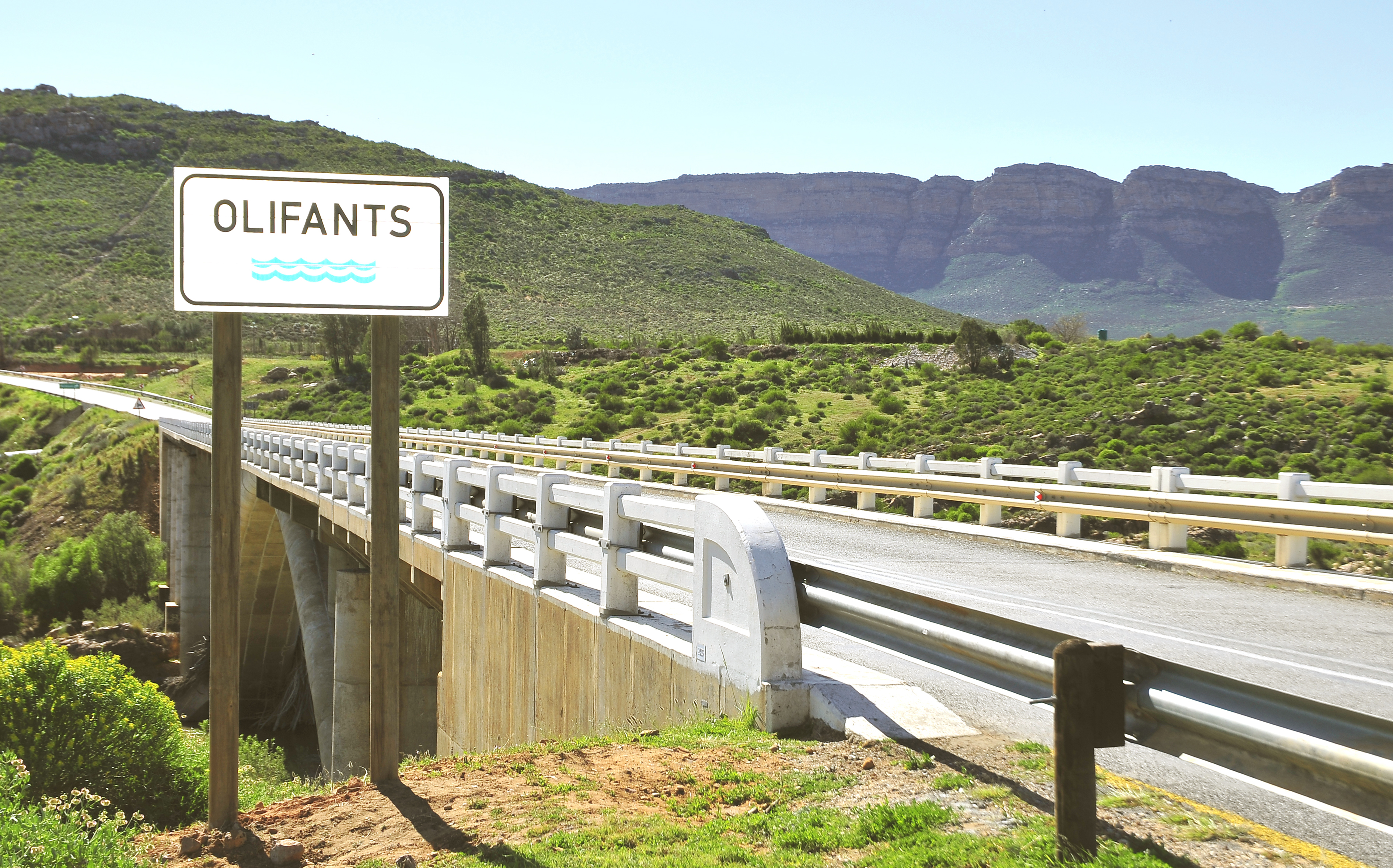 Bridge over Olifants River (N7 road). Western Cape, South Africa